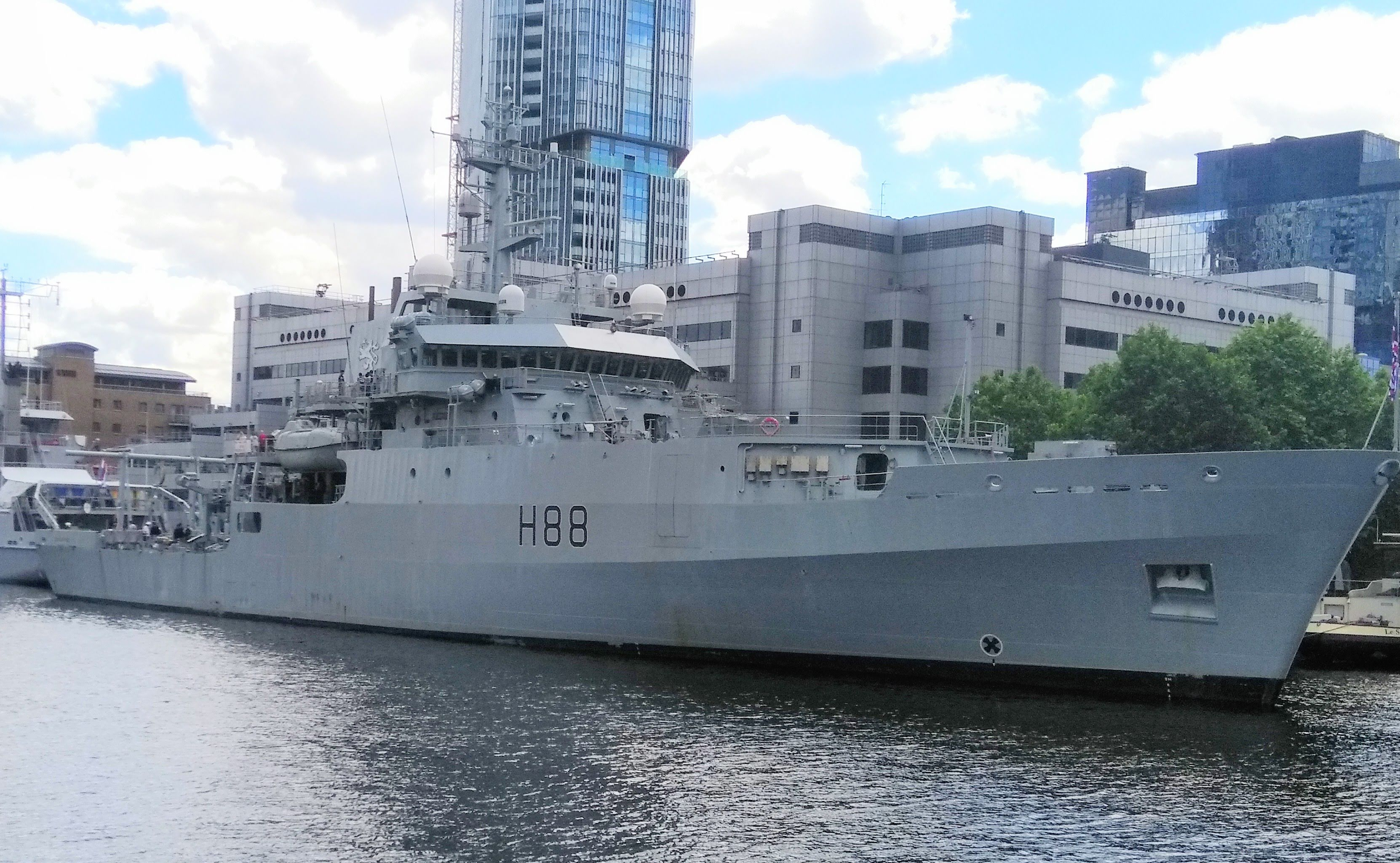 The Royal Navy's Echo-class survey ship HMS Enterprise moored at South Quay during a visit to London in June 2019.